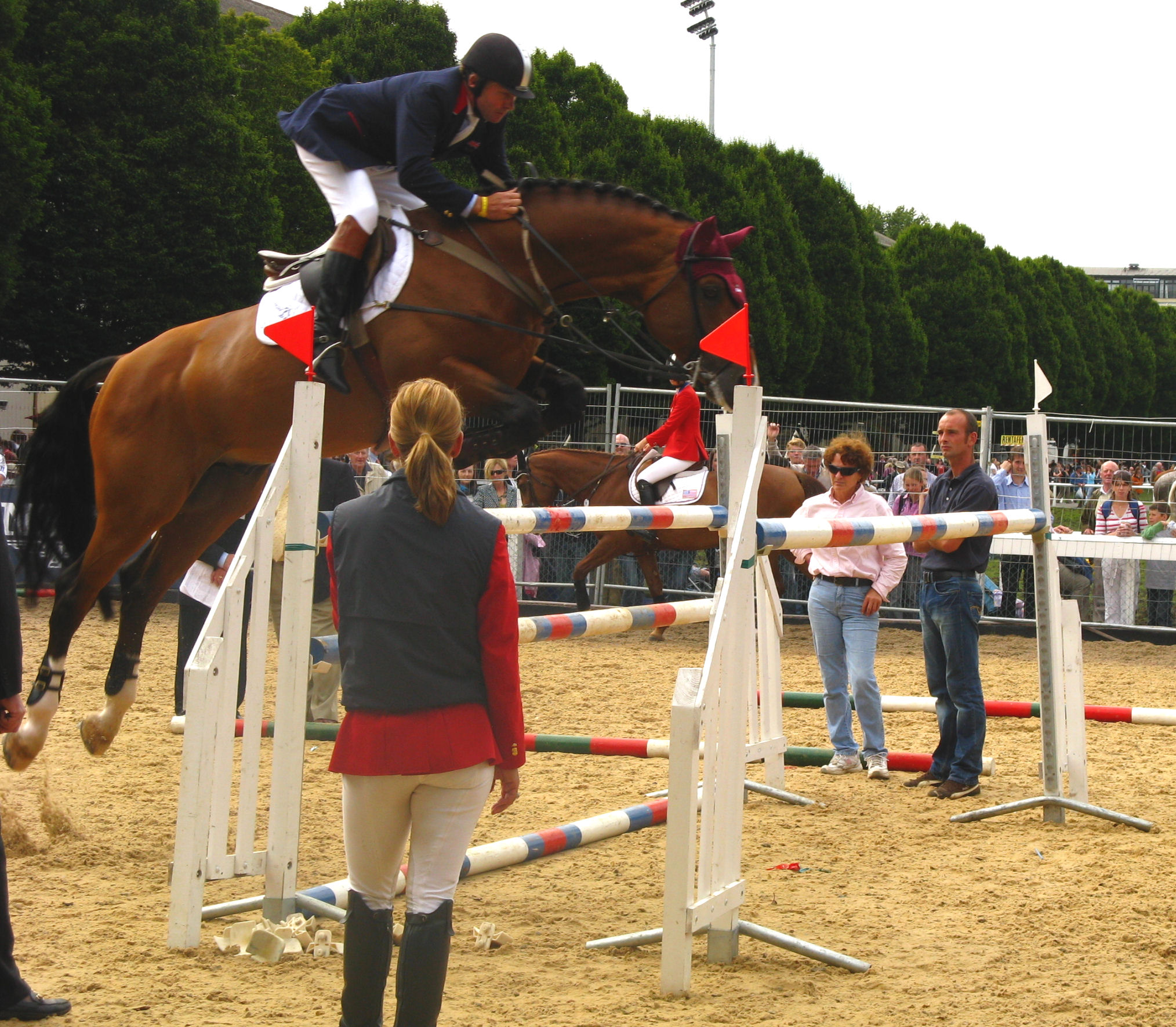 Nick_Skelton_&_Arko_III_3.JPG - Dublin CSIO5* - Fri. 8th Aug. 2008